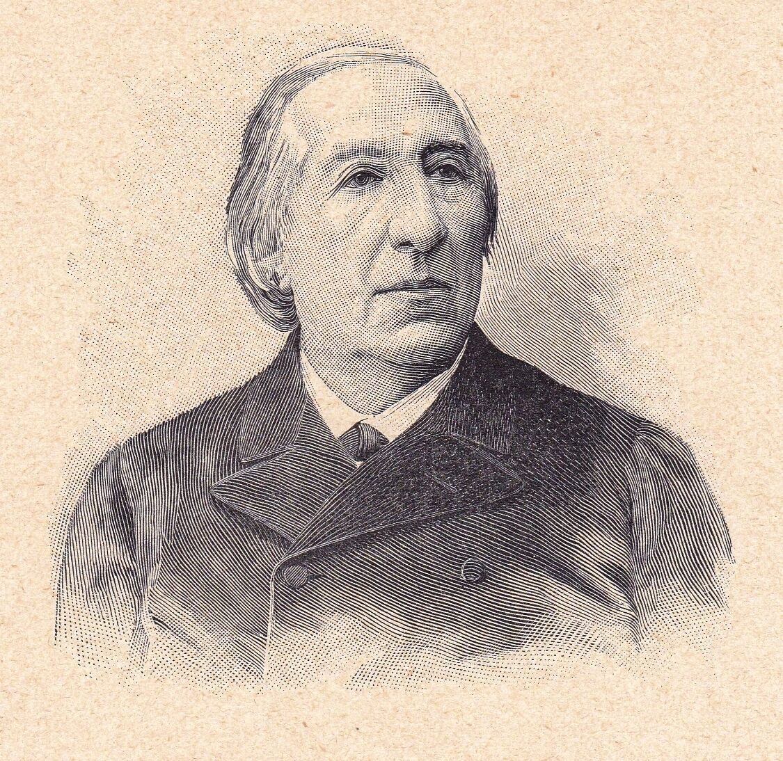 French politician Emmanuel Arago (1812-1896)